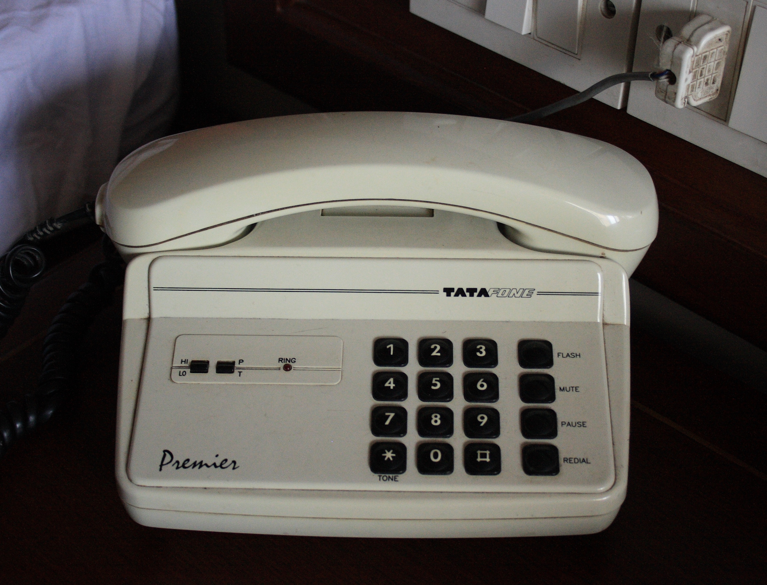 A Tata Fone - a telephone made by Tata.